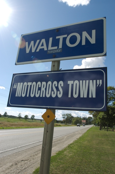 Walton is 'Motocross town' to many across Canada. The annual TransCan Grand National Championship has made the town an icon of the sport